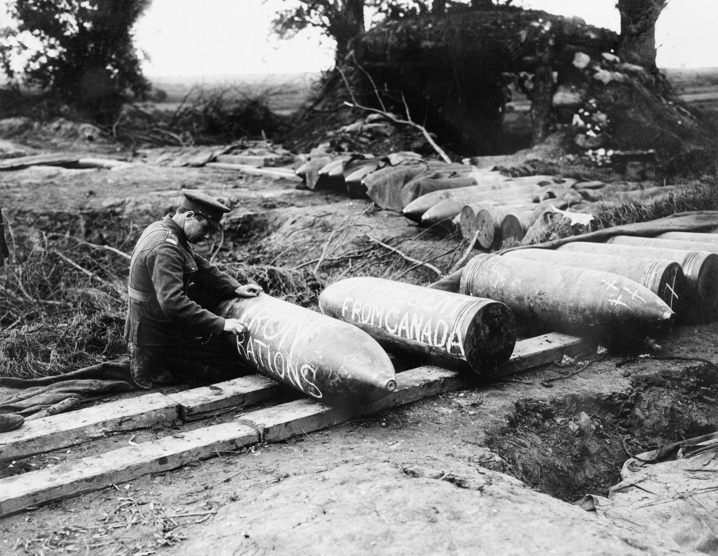 THE BATTLE OF THE SOMME 1 JULY - 18 NOVEMBER 1916 A Canadian gunner chalking messages on to 15-inch howitzer shells.